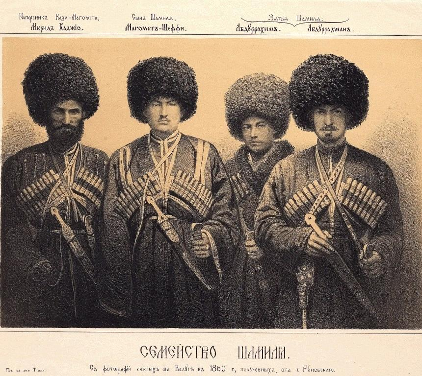 Shamil with his sons in saint petersburg. 1859